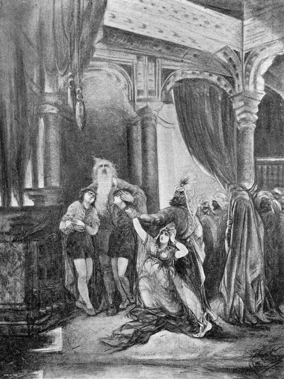 Nova iskra